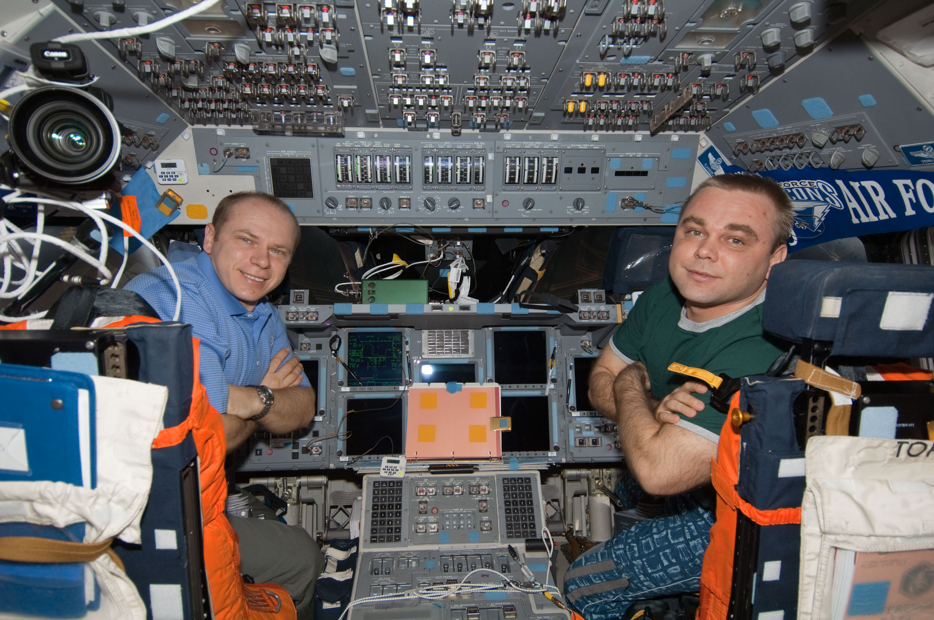 Russian cosmonauts Oleg Kotov (left) and Maxim Suraev, both Expedition 22 flight engineers, pose for a photo on the flight deck of space shuttle Endeavour while docked with the International Space Station.